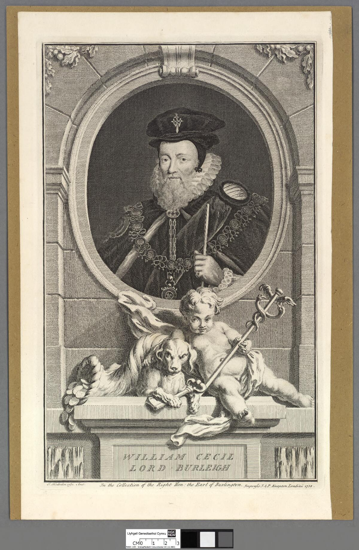 A portrait from the Welsh Portrait Collection at the National Library of Wales. Depicted person: William Cecil, 1st Baron Burghley – English statesman